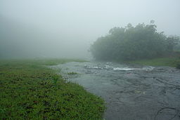 hiranyakeshi river